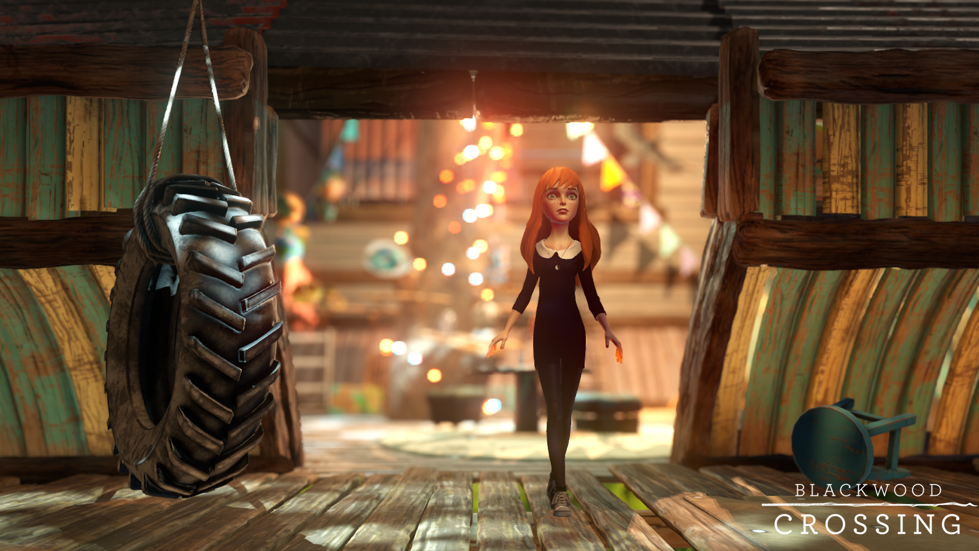 Screenshot of video game Blackwood Crossing